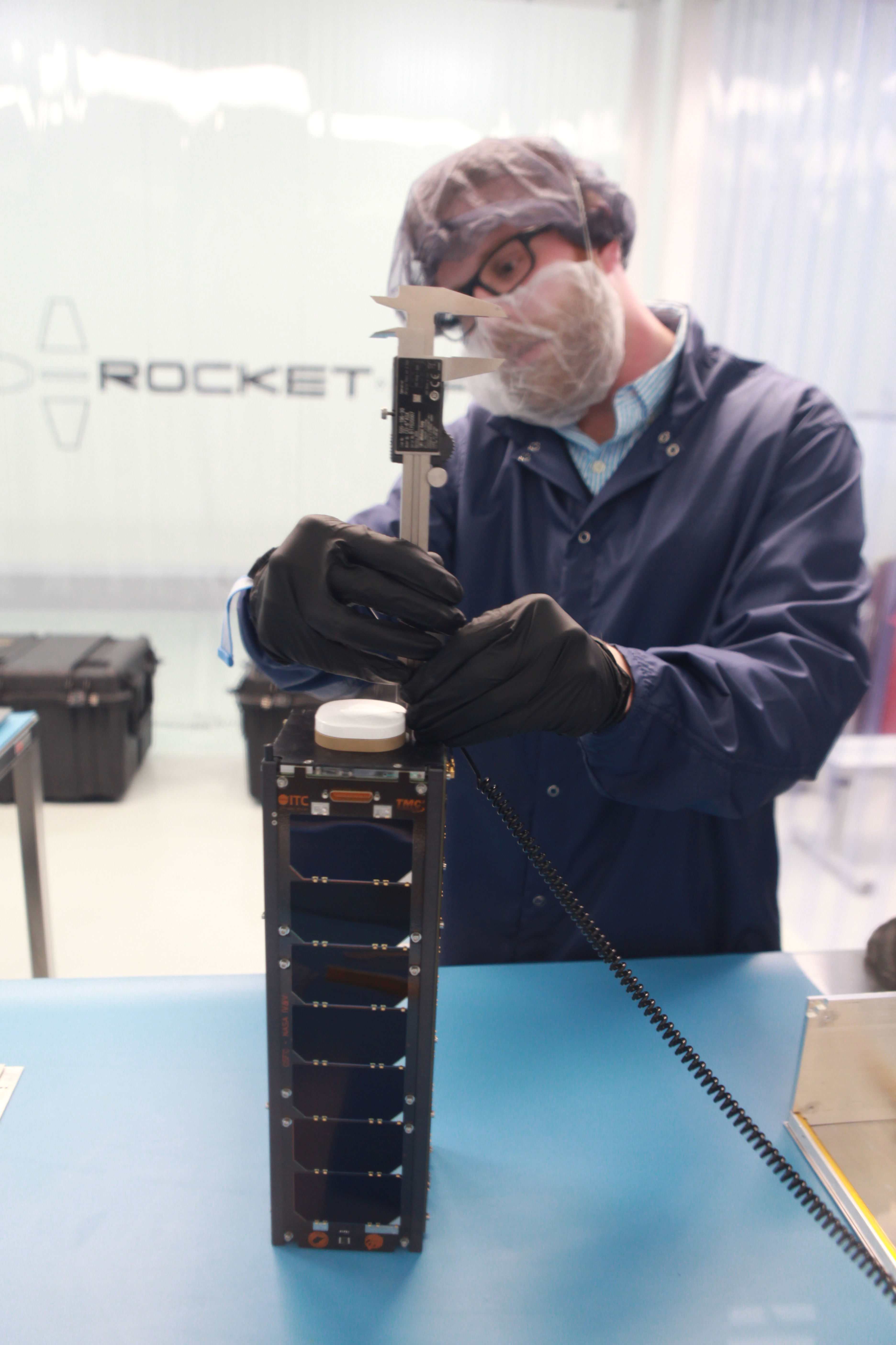 Engineer measuring STF-1 prior to loading into deploye inside Rocket Lab facility, located at Huntington Beach California.